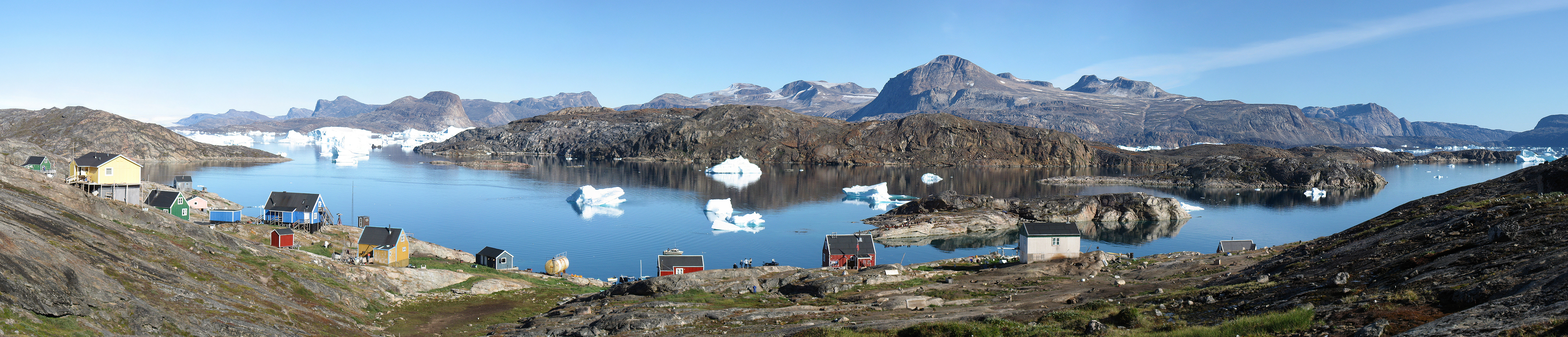 Panorama of the small settlement Naajaat in North-West Greenland. The Greenland ice sheet is seen to the upper left. The panoramic is based on hand-held photos taken with a Canon IXUS 800 IS compact camera. The stiching was done in PTGui with Smartblend.